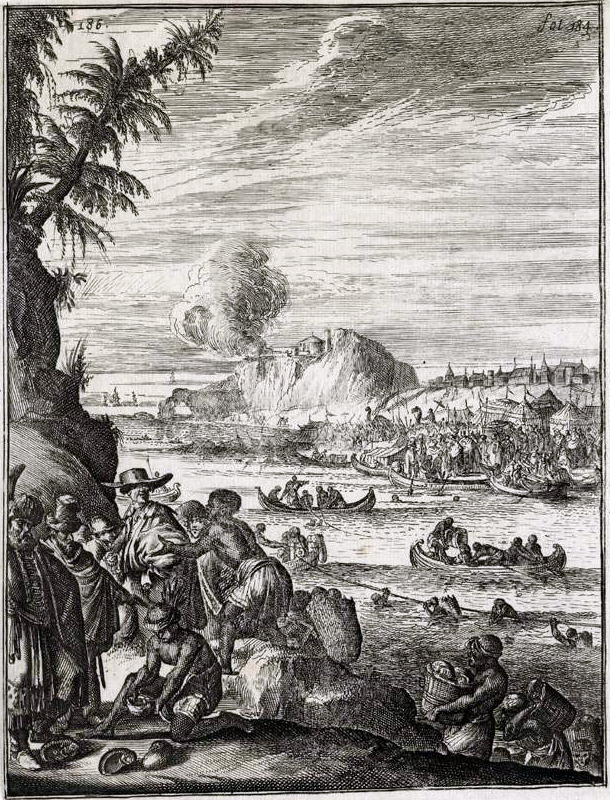 "Pearl fishing, and how it is done," as the Dutch of the Dutch East India Company watch pearl fishing at Tuticorin and Palipatnam, from 'Wouter Schoutens' travels into the East Indies," 2nd ed., Amsterdam, 1708 Source: ebay, Aug. 2010